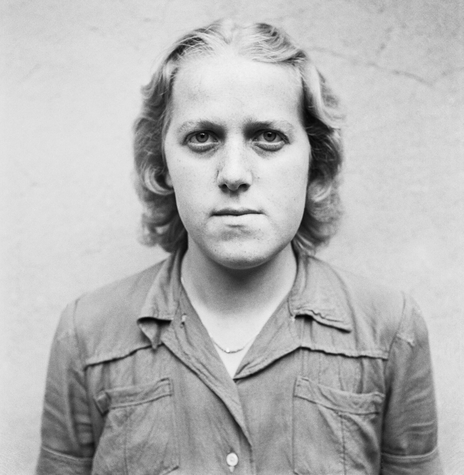 Herta Bothe (born 1921); guard in various German concentration camps.